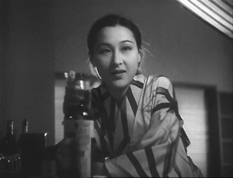 Screenshot of Yumeko Aizome in the 1934 movie A Mother Should be Loved